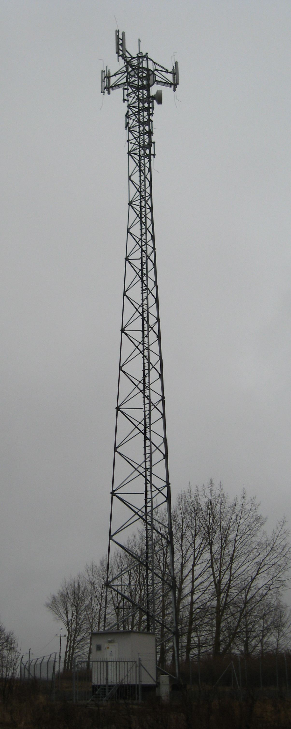 The village Podławki in Poland - OpenStreetMap (Info)